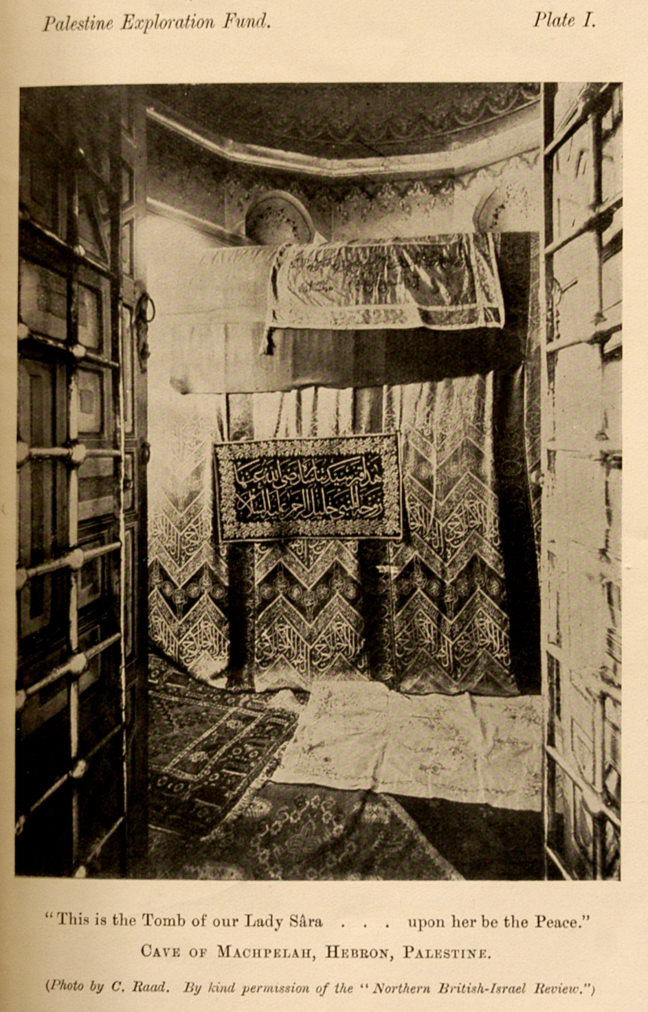 "This is the Tomb of our Lady Sara ... upon her be the Peace." Cave of Machpelah, Hebron, Palestine.